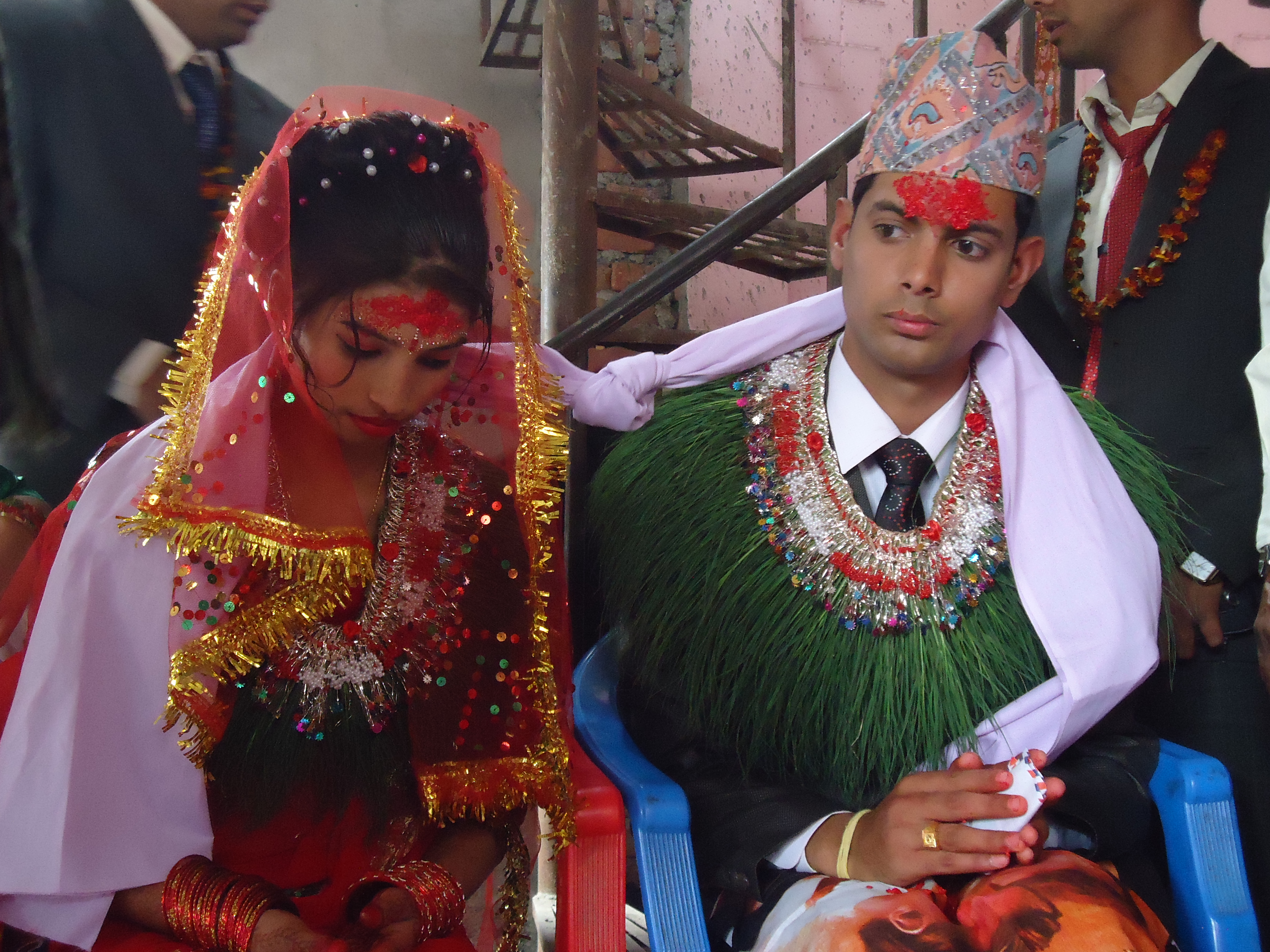 Nepali bride and bridegroom during the marriage as per Hindu culture. Kapil Dhakal Weds Radha Gyawali